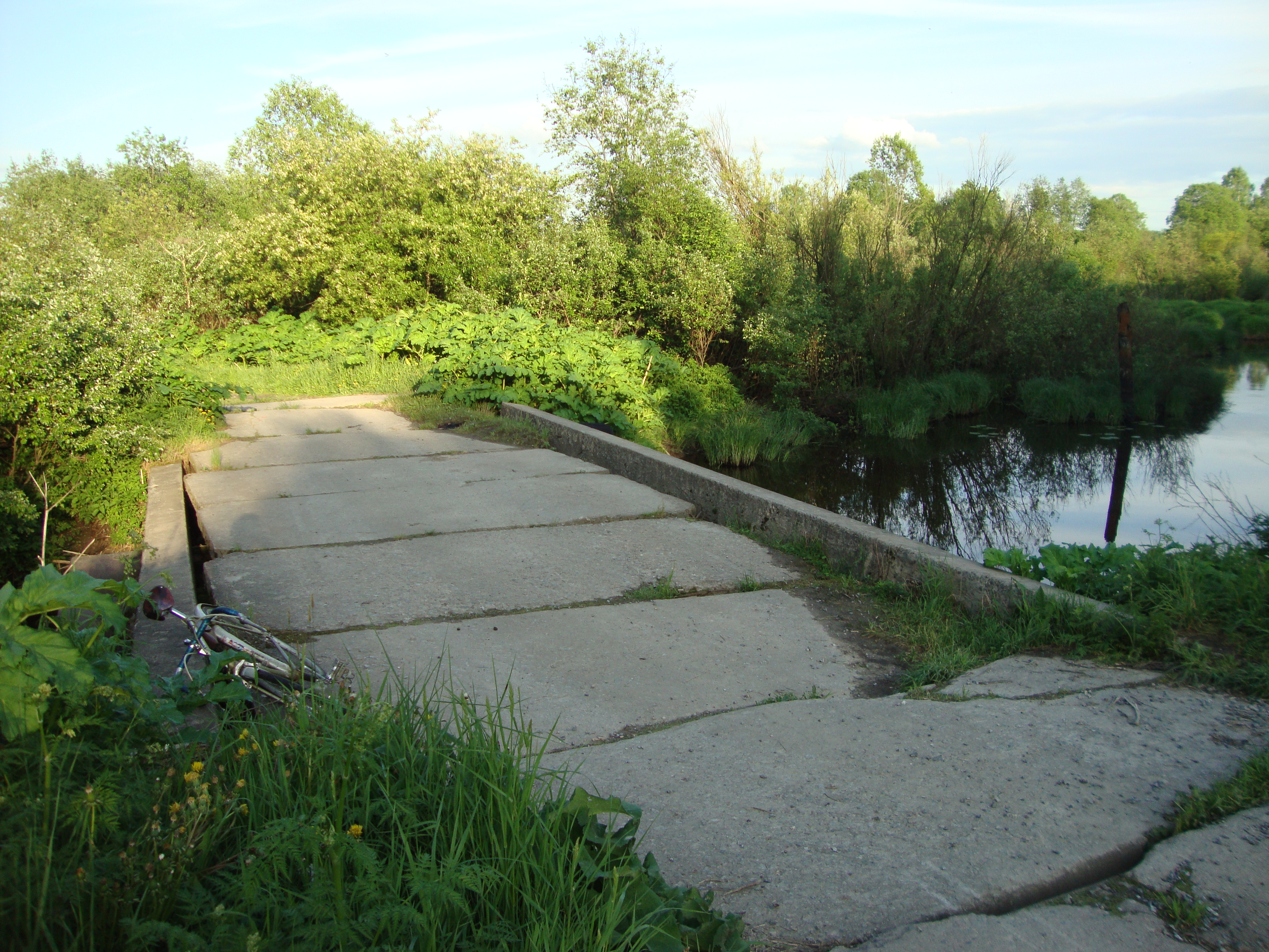 Nowosergievsky bridge.